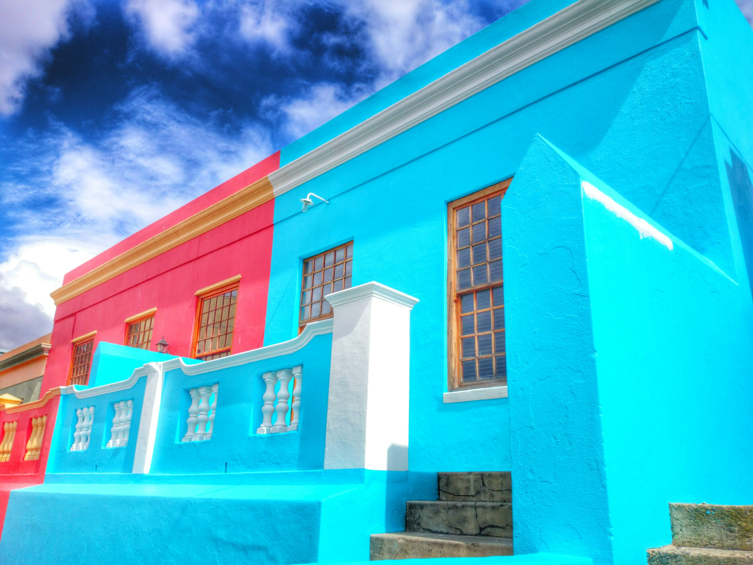 Bo-kaap colorful buildings